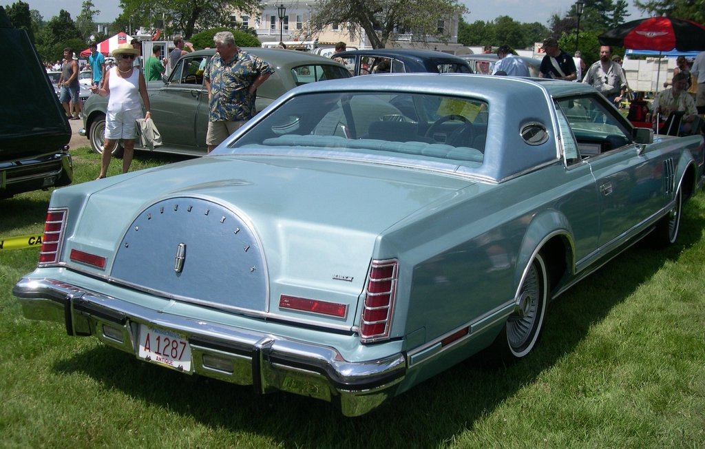 1978 Lincoln Mark V Diamond Jubilee